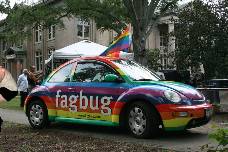 Fagbug, a VW New Beetle from New York, visiting the 24th Annual North Carolina LGBT Pride Parade & Festival at Duke University East Campus in Durham, North Carolina.